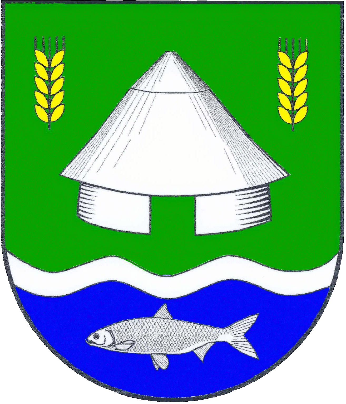 Coat of arms of the municipality Gremersdorf in Schleswig-Holstein, Germany.